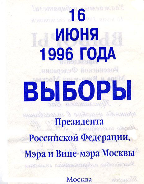 Russian voter invitation card, Russian presidential elections, June 16, 1996. Obverse.